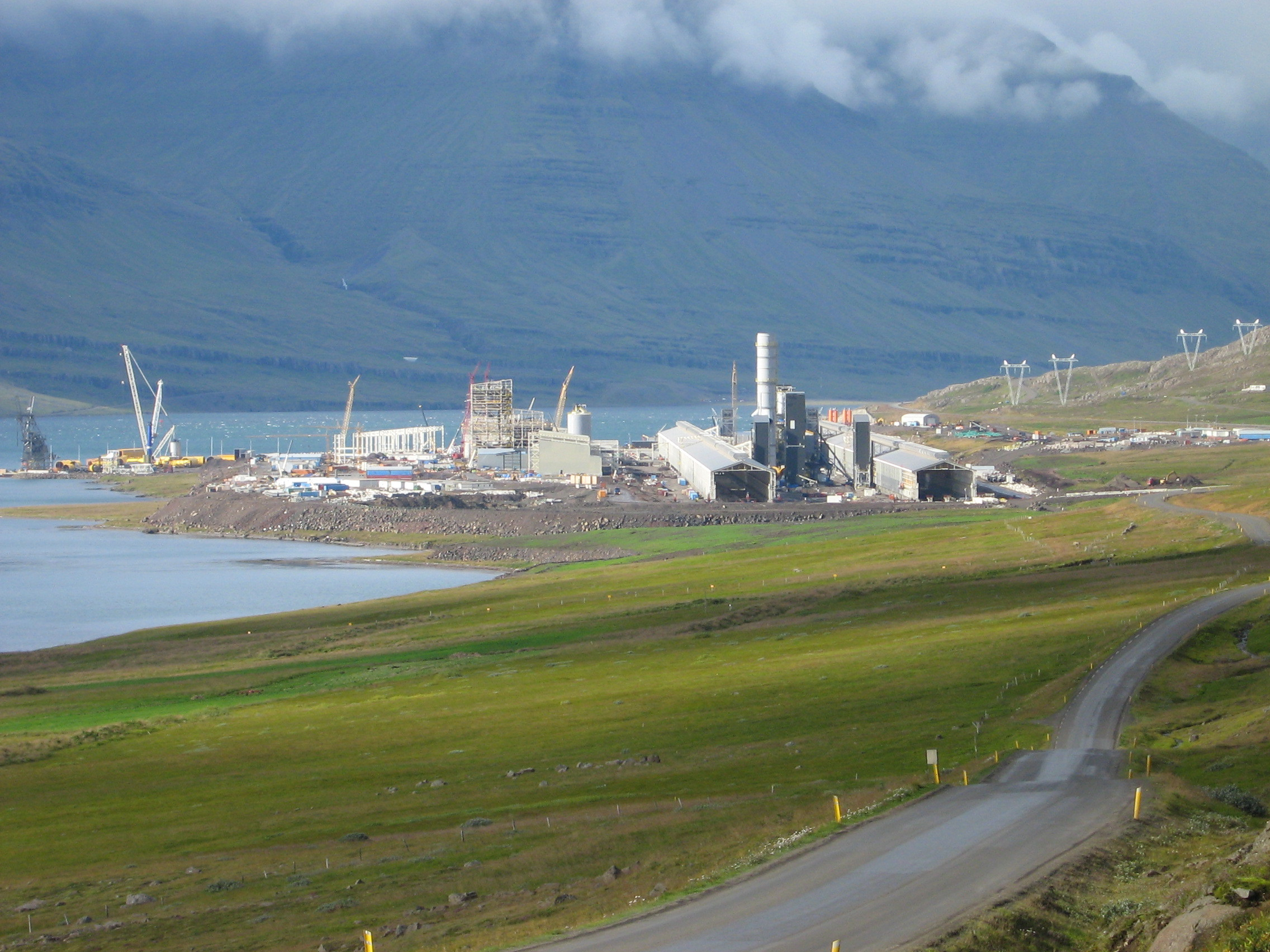 Fjarðarál, aluminium plant which will be powered by the electricity generated by the Kárahnjúkadam.